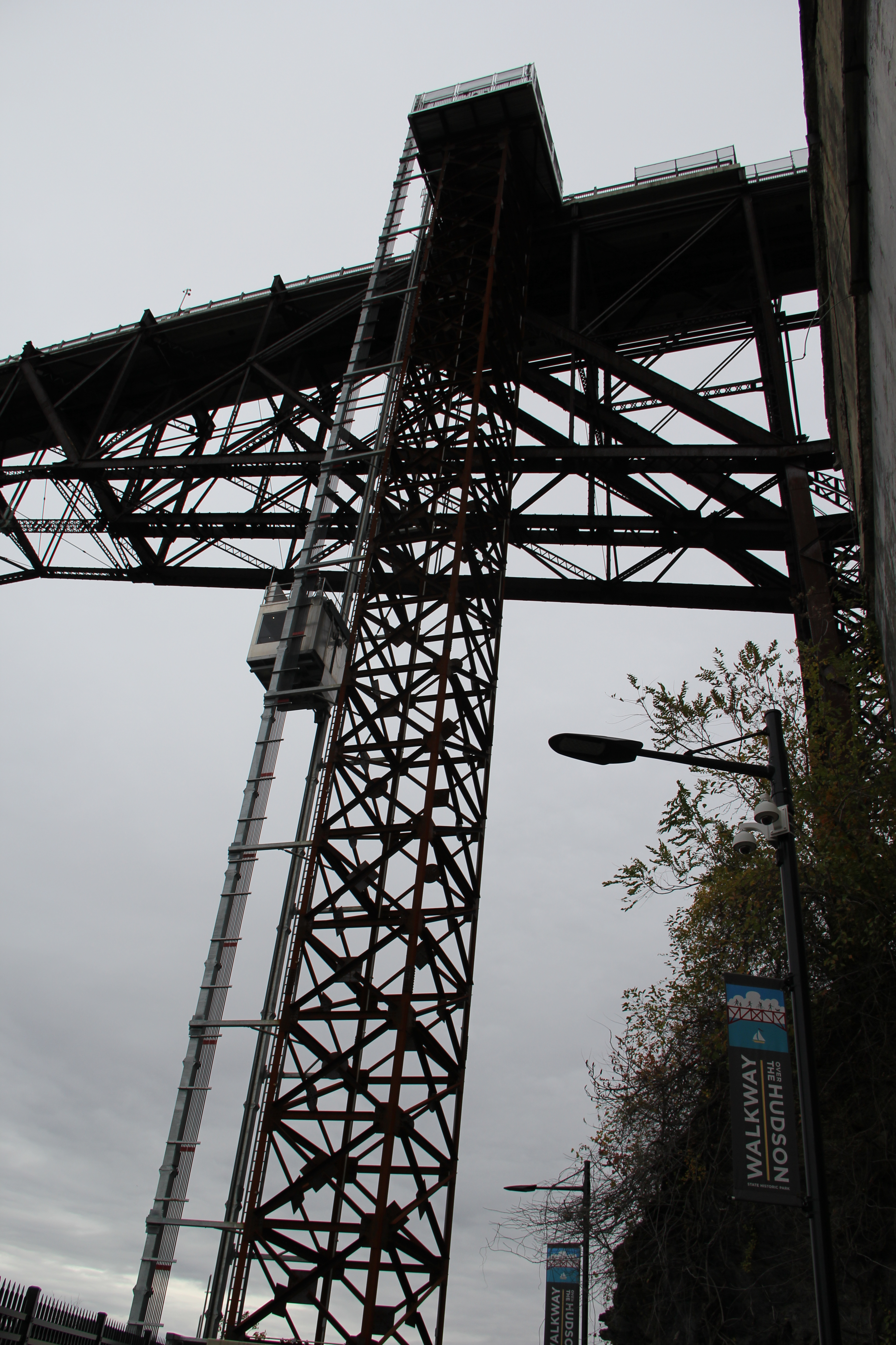 The elevator at the Walkway Over the Hudson NY State Park